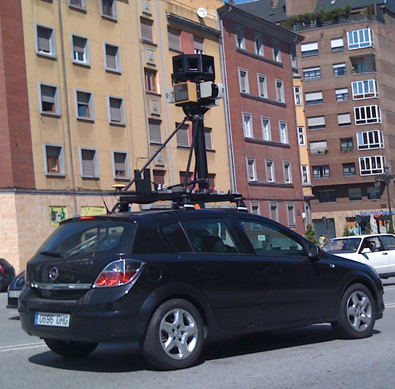 Google Street View Car in Oviedo, Spain.